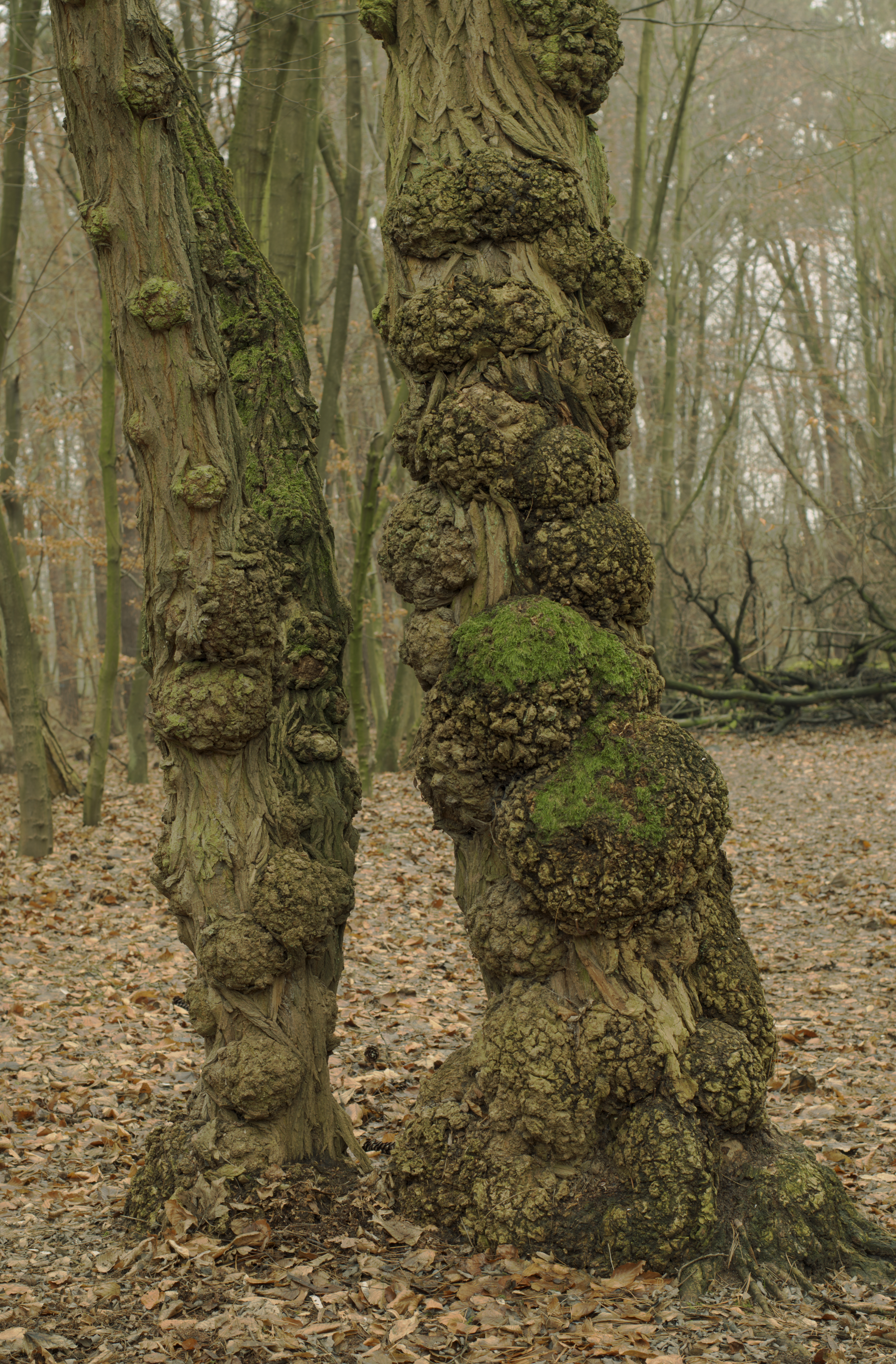 Oaks with Canker, Hesse, Germany. Tone-mapped HDRI.